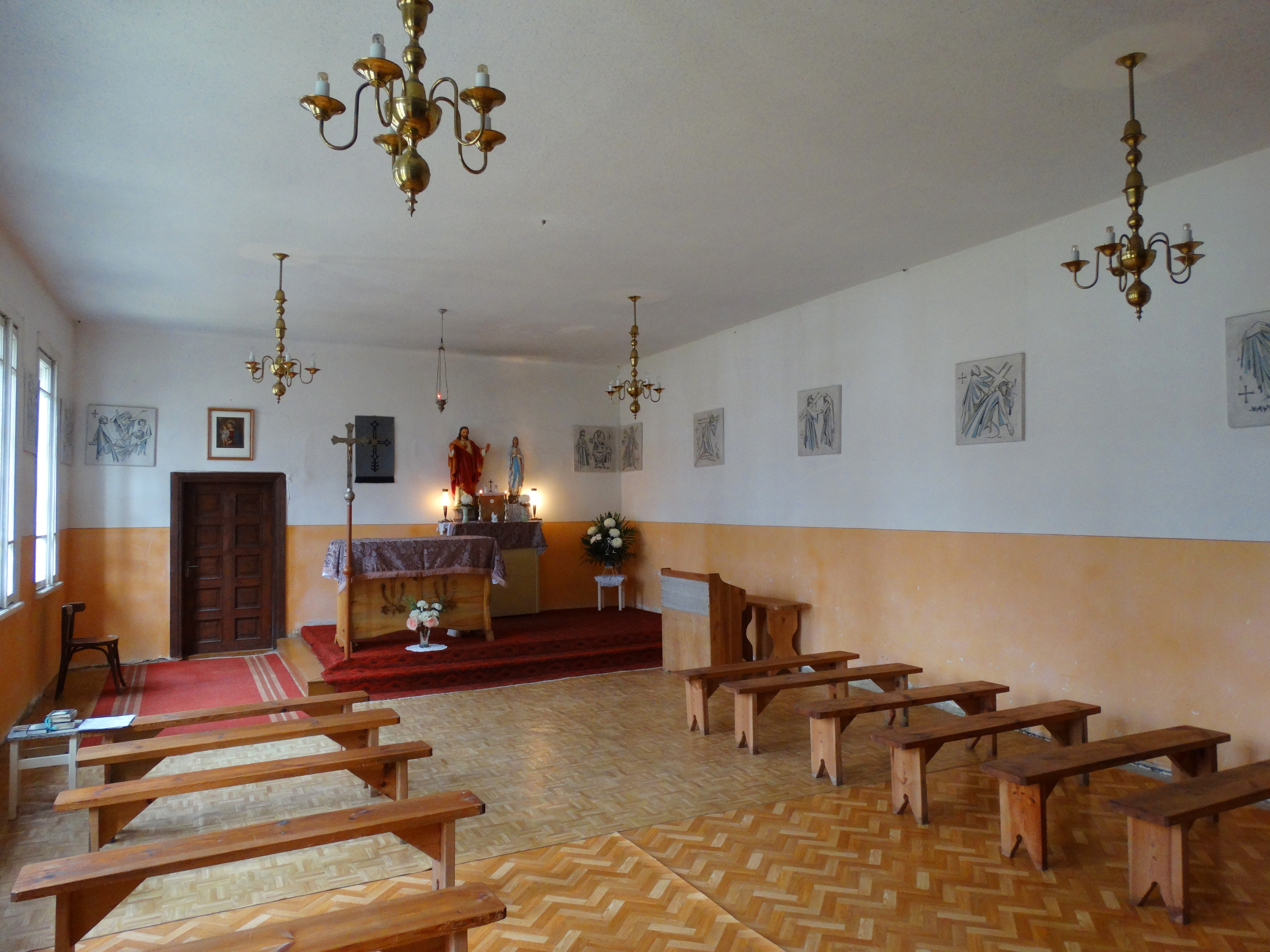 Chapel in Kvykliai, Utena district, Lithuania